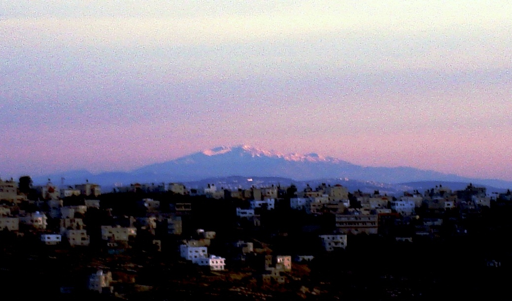 Mt_Hermon_from_Tal_Menashe